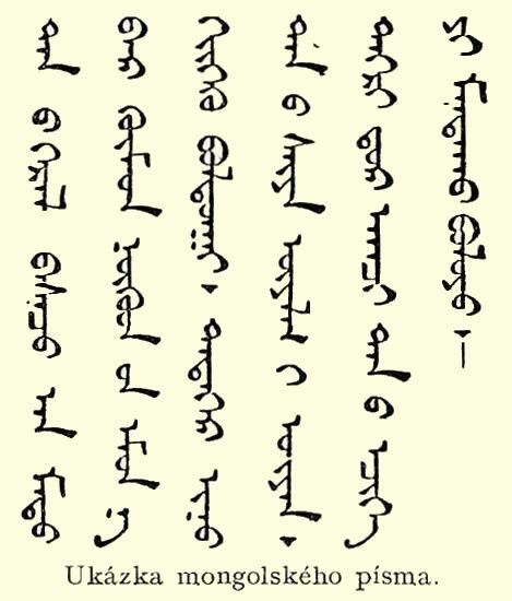 Sample of the old mongolian script. The descriptions are in Czech.